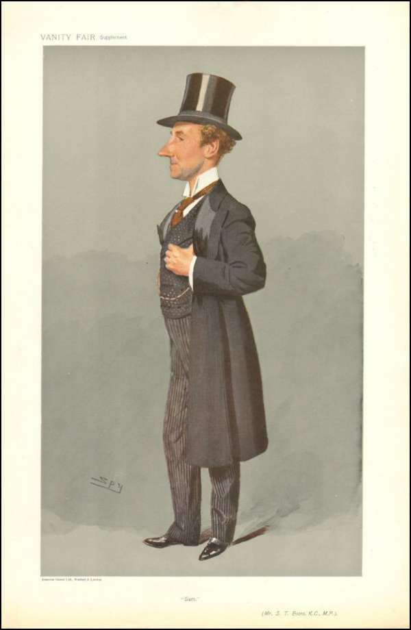 Men of the Day No.1105: Caricature of Sir ST Evans KC JP MP. Caption reads: "Sam"